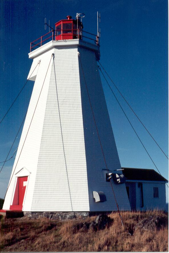 Swallowtail Lighthouse. Photo taken on Grand Manan Island in 1997